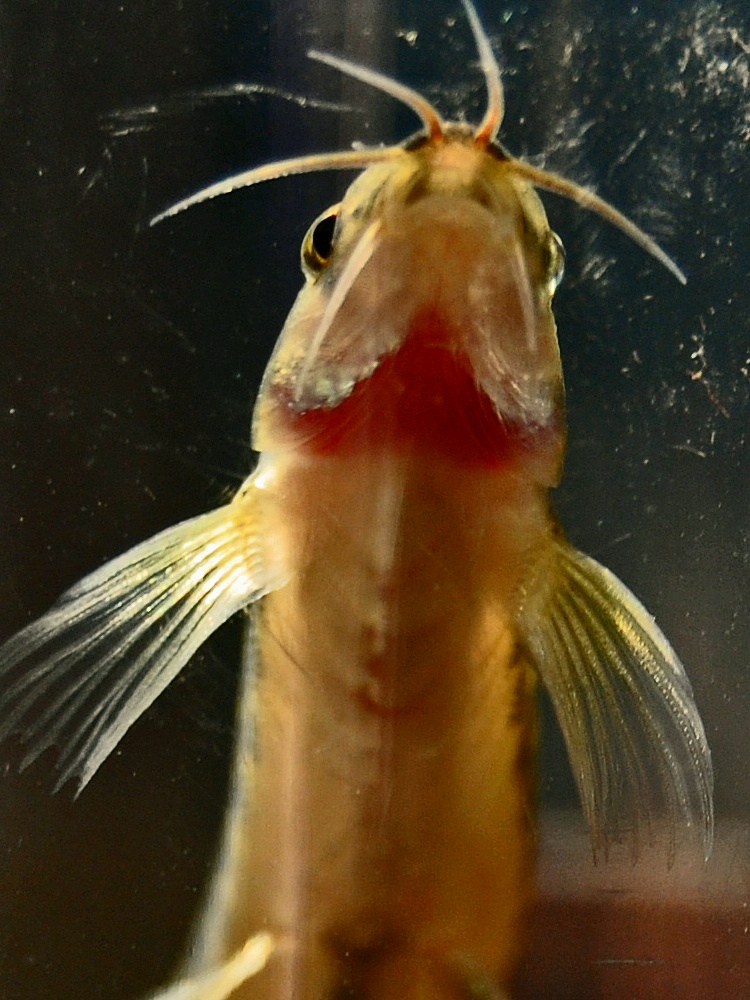 Nemacheilus chrysolaimos, from Cihideung Hilir, Bogor, West Java, Indonesia. Chin and chest close up.